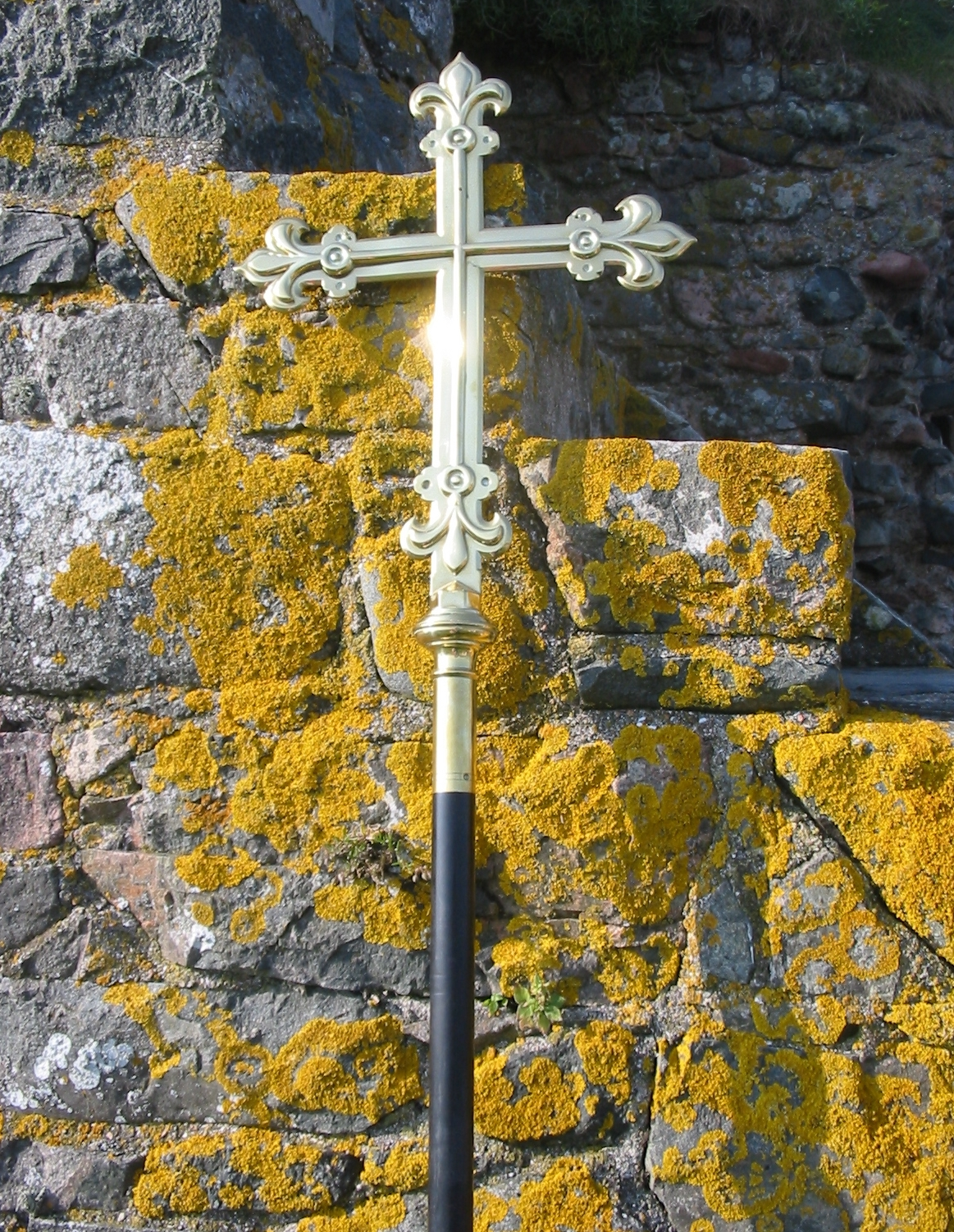 Christian cross resting on lichen covered steps at Hermitage in St. Helier, Jersey Photo taken by Man vyi with Canon PowerShot A40 on 17/7/2005